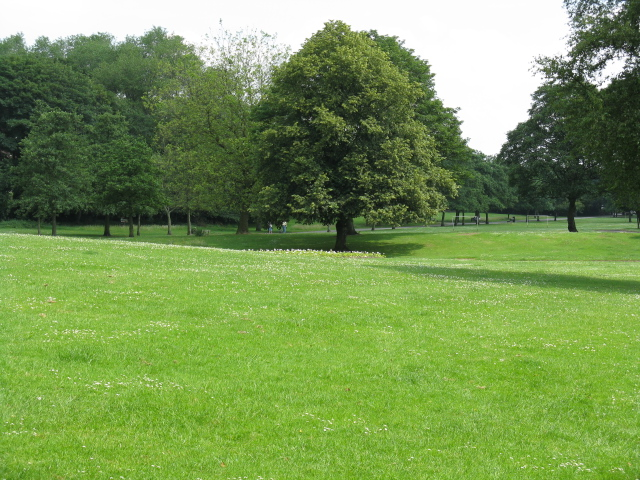 Buile Hill Park